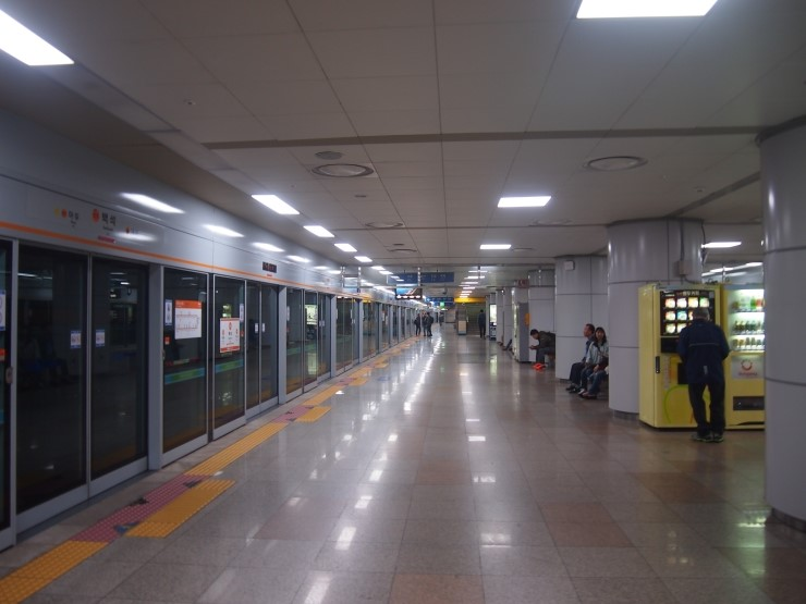 Baekseok Station Platform